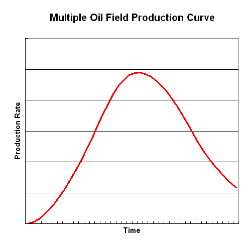 Plot of a theoretical multiple oil field oil production curve generated using Excel